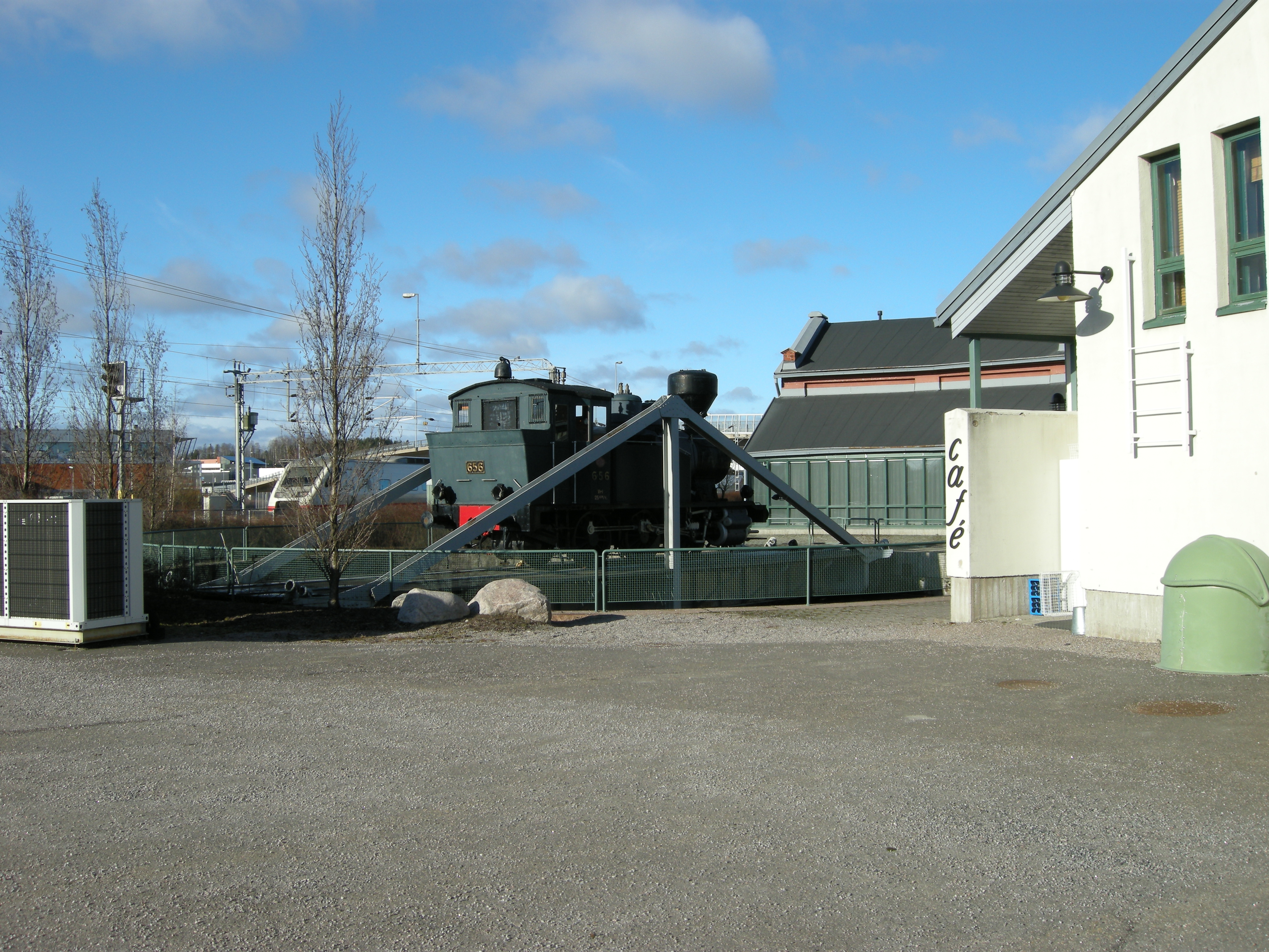 A Vr Class Vr1 steam locomotive no. 656 on a turntable outside Salo Art Museum in Salo, Finland